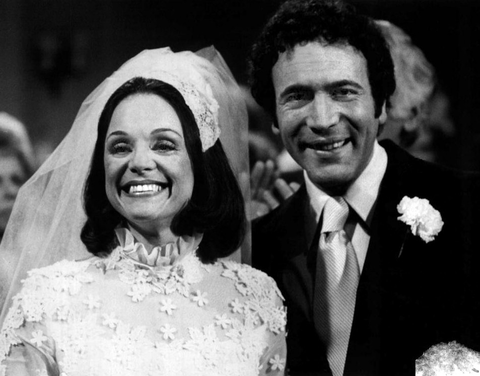 Photo of Valerie Harper as Rhoda Morgenstern and David Groh as Joe Girard from the television program Rhoda. This is a wedding photo of Rhoda and Joe.